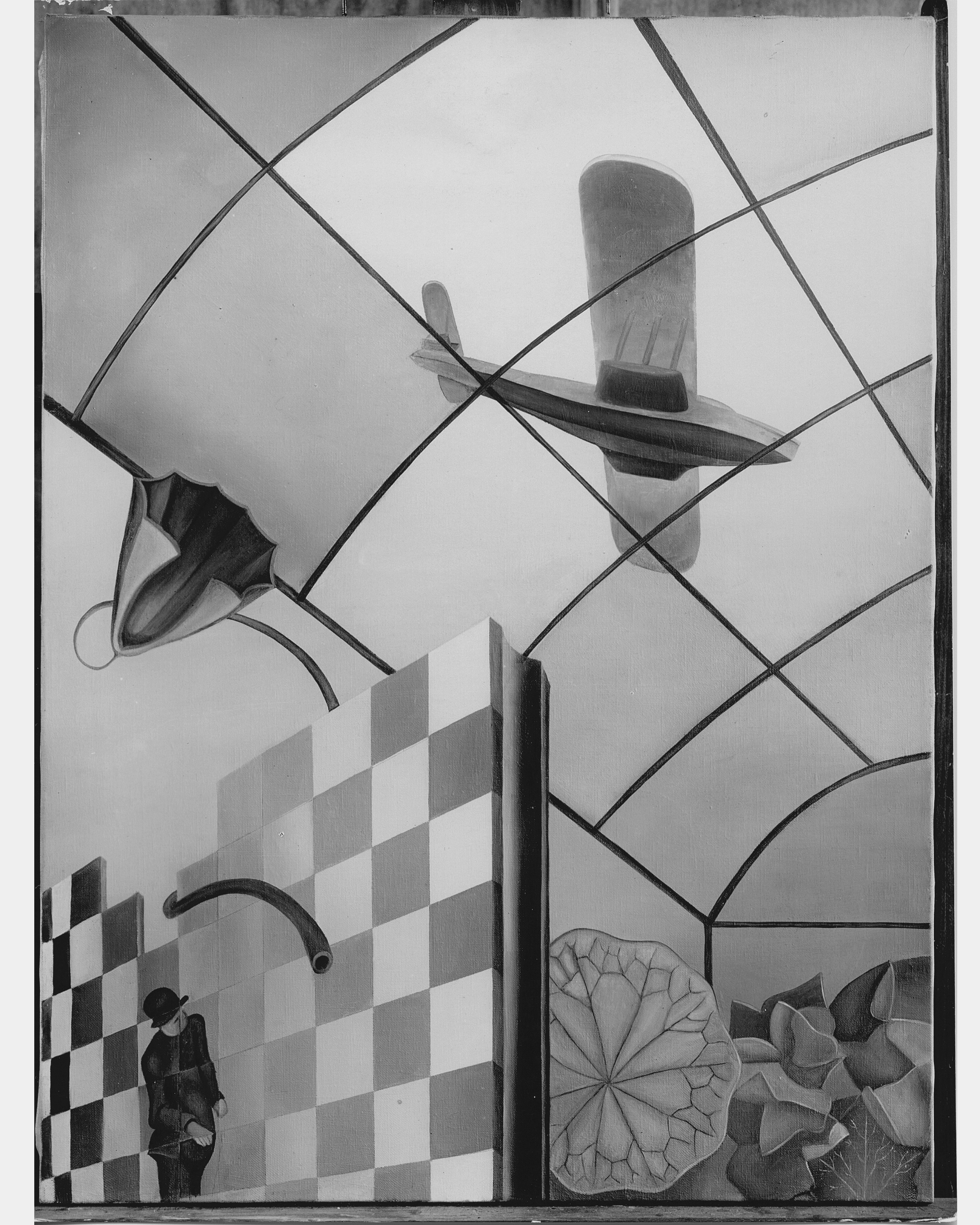 Glasdach